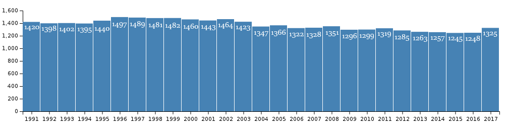 Population of Greenlandic town Uummannaq in 1991-2017